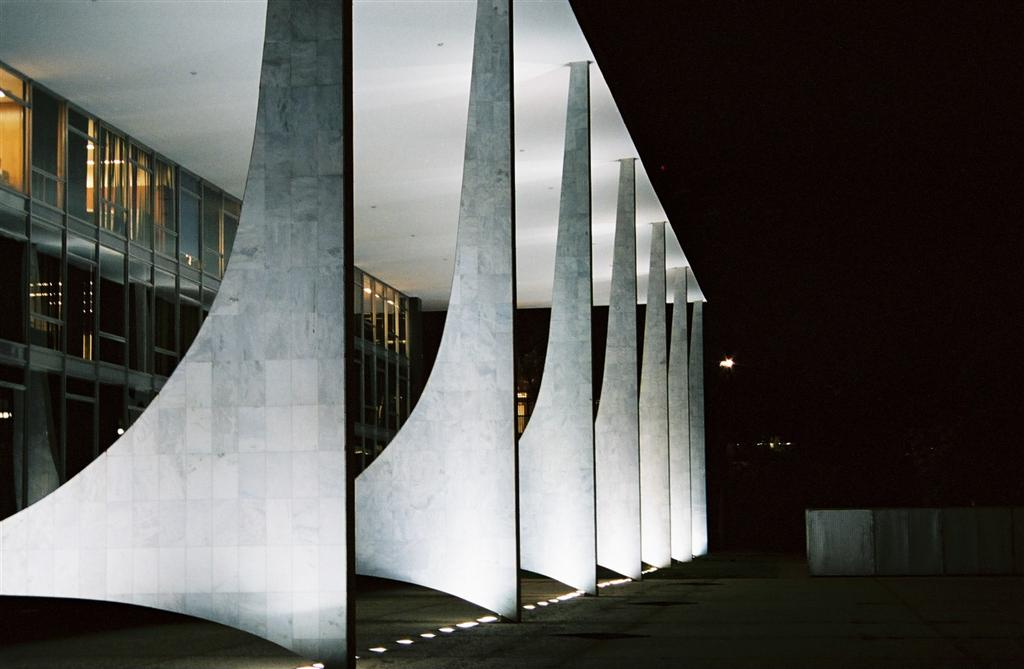 Supreme Federal Court of Brazil.